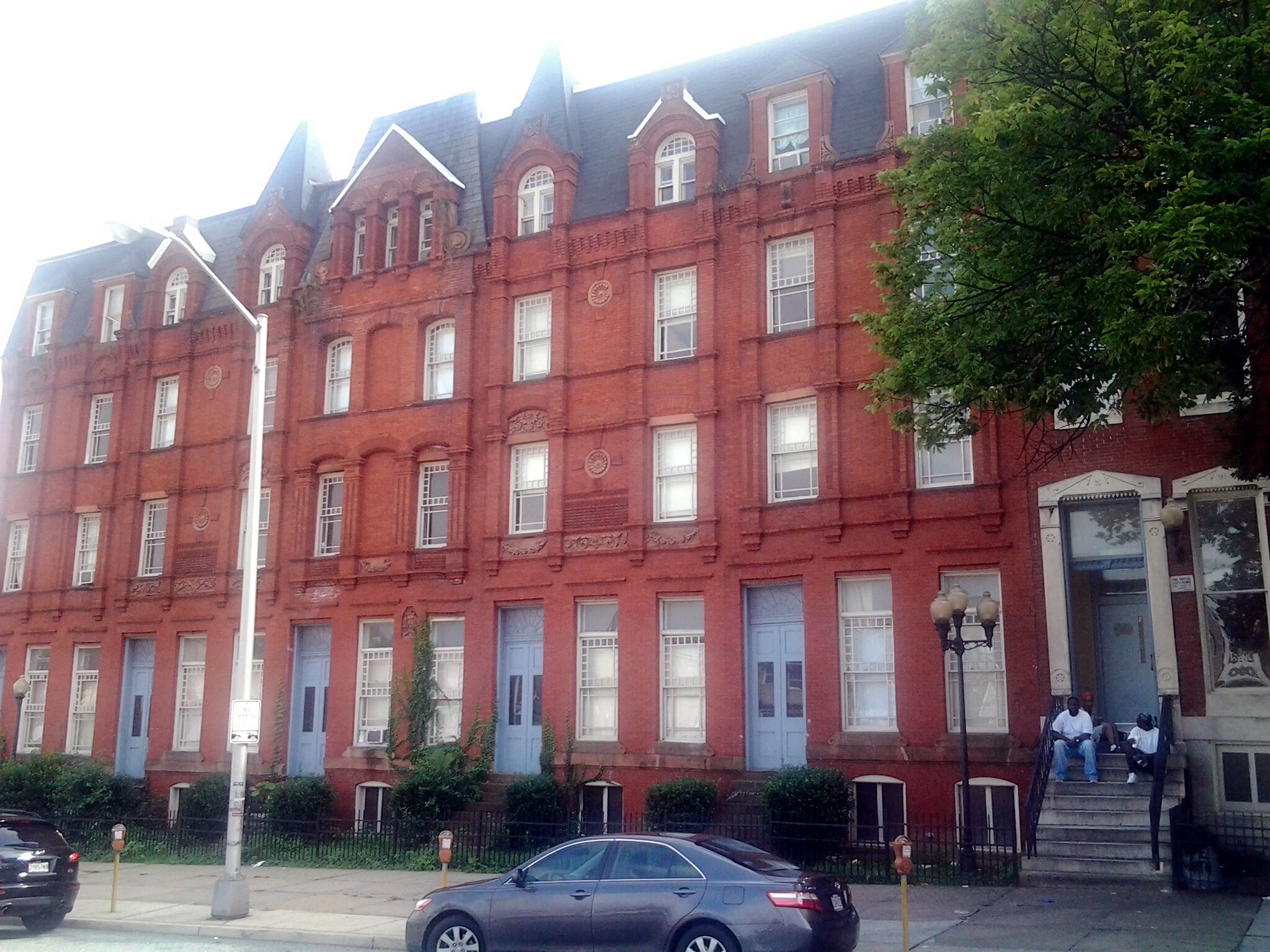 Rowhouses at 303-327 East North Avenue This photo was uploaded with Wiki Loves Monuments mobile 1.2.1 (Android).